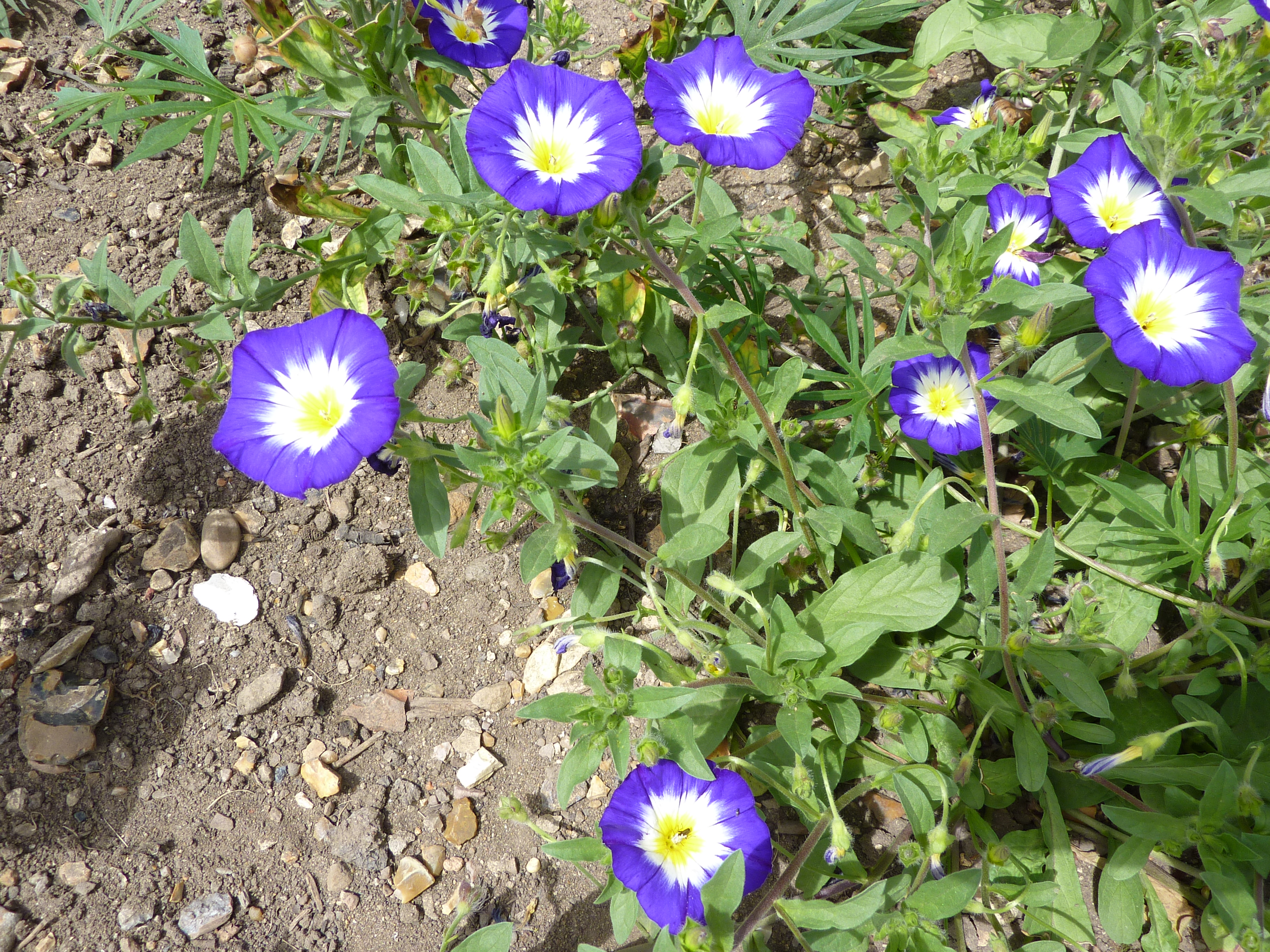 Taken in the Cambridge University Botanic Garden